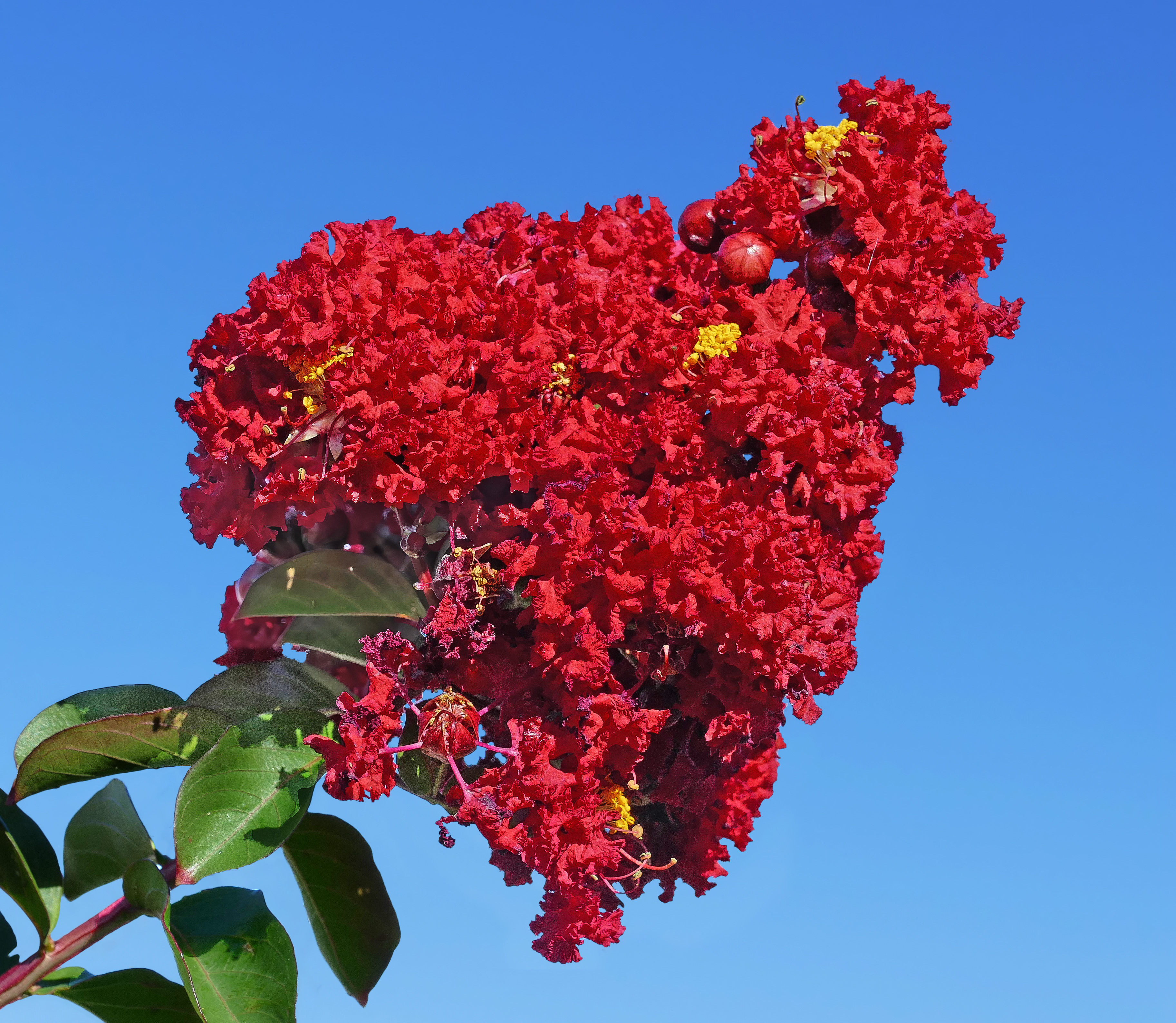 Red Crepe Myrtle -- Lagerstroemia